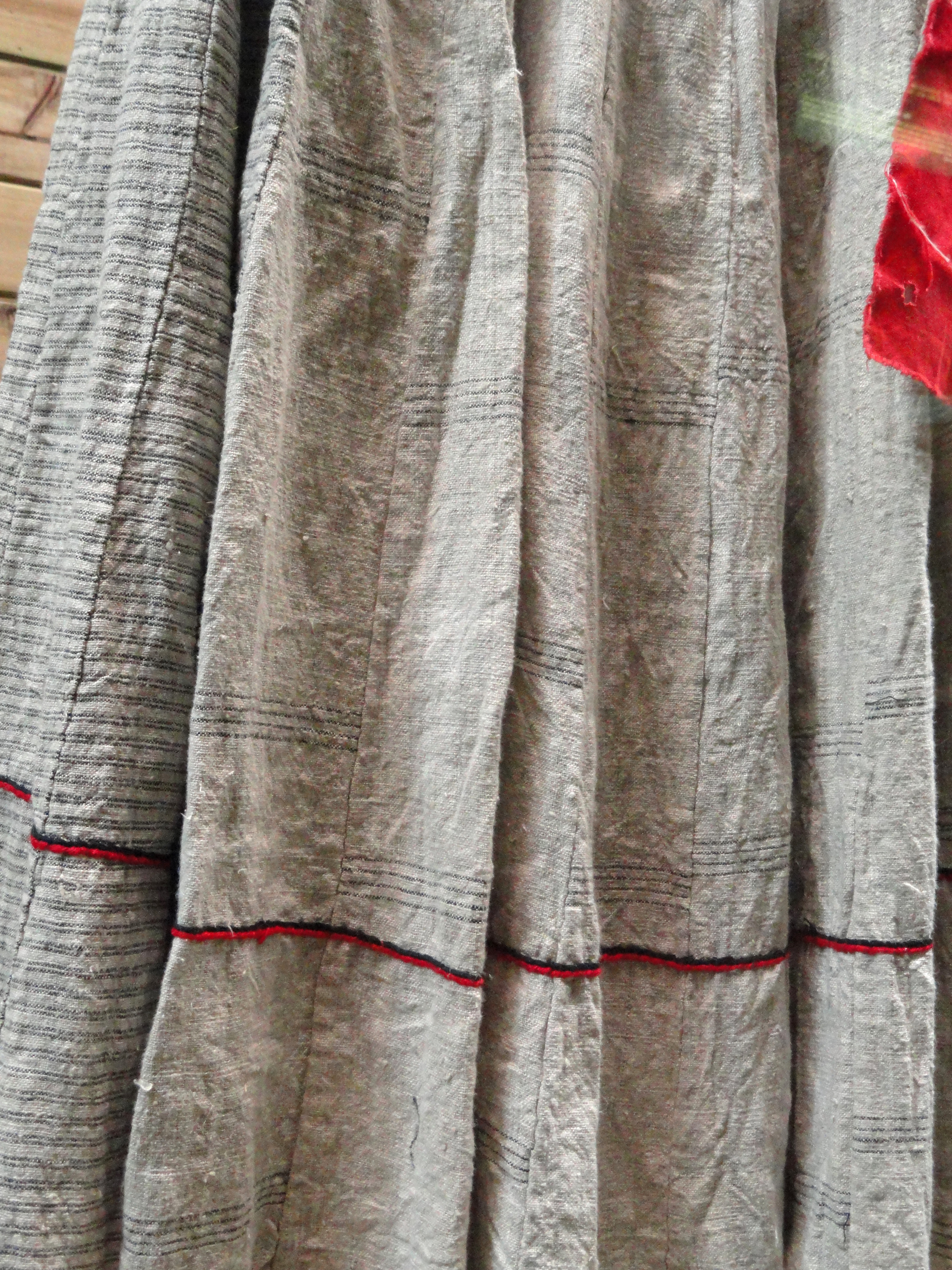 Lisu woman hemp, shell-ornamented dress detail. Clothing exhibited in the Yunnan Nationalities Museum, Kunming, Yunnan, China.